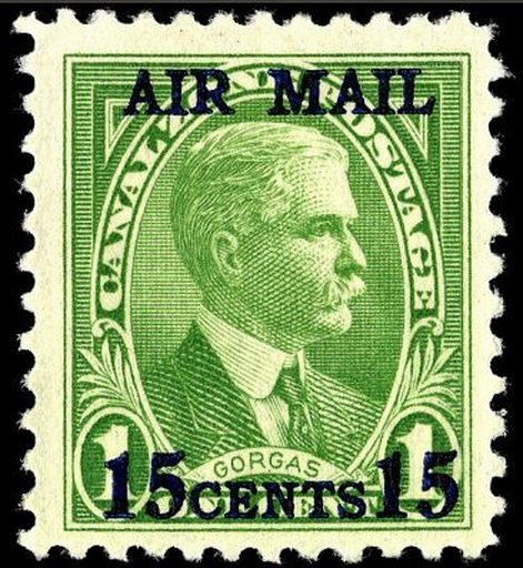 Postage stamps and postal history of the Canal Zone : Canal Zone air mail stamp, 1929 issue